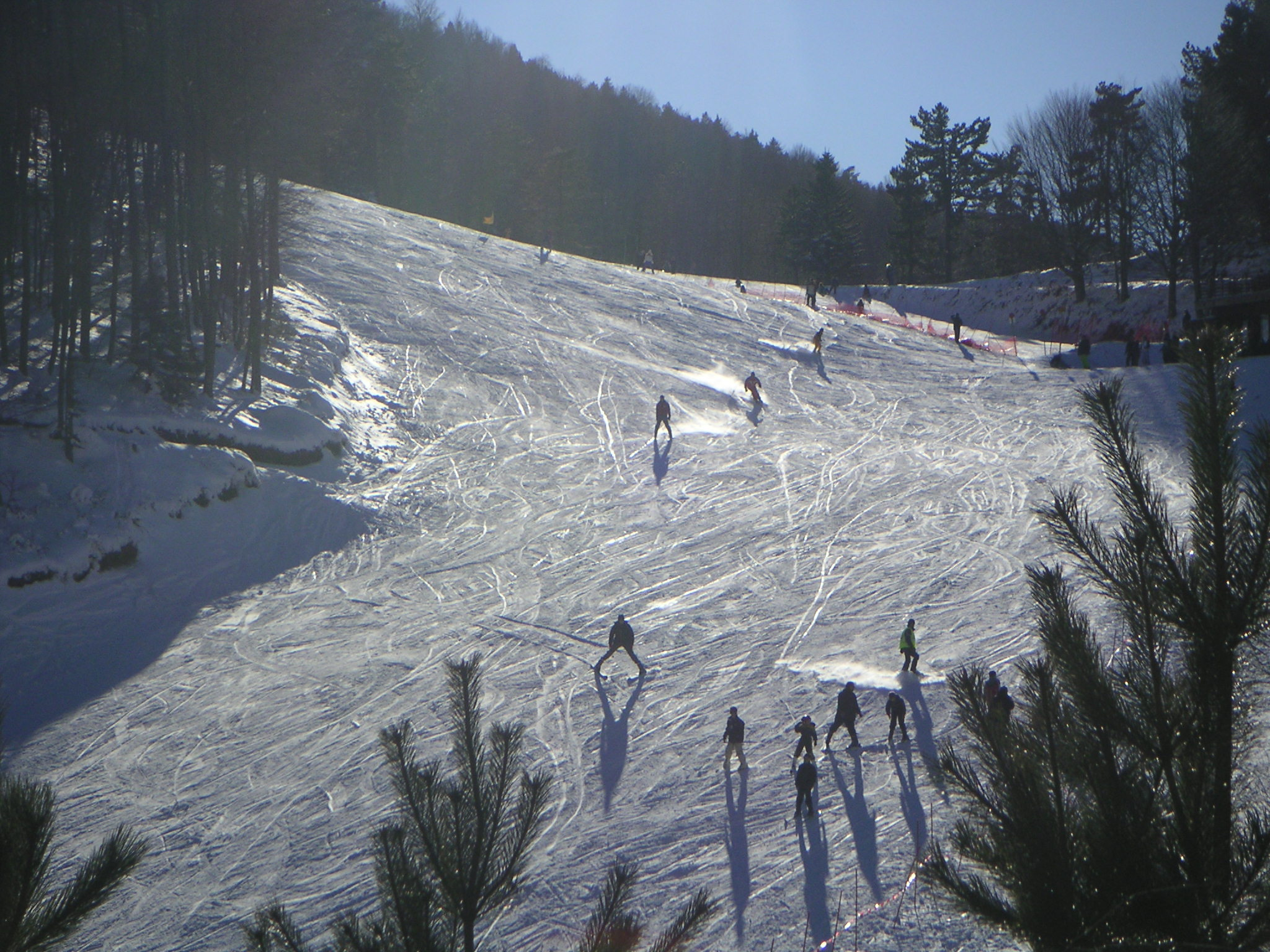 Snowboard centre in Elatochori, Pieria, Greece